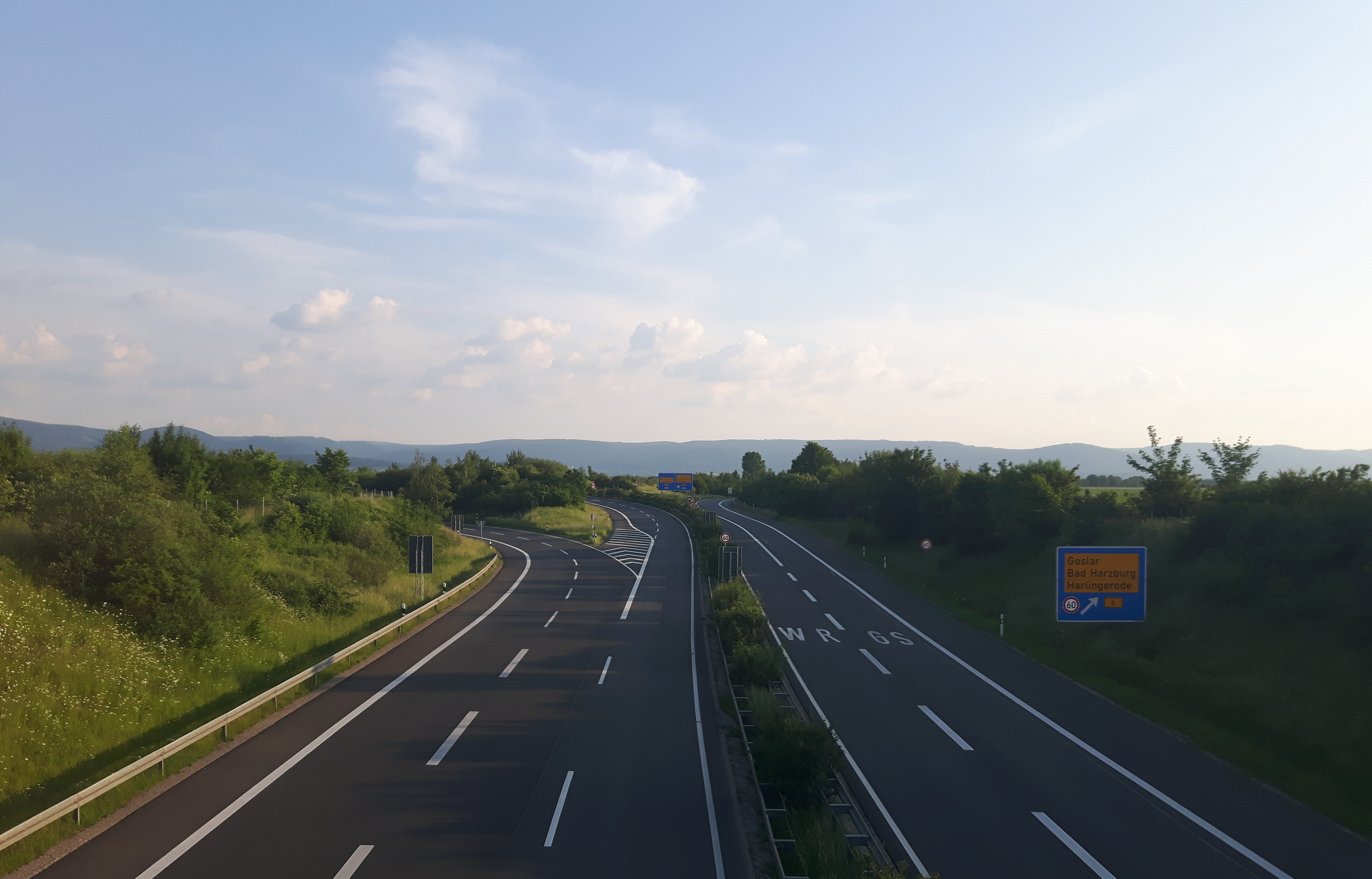 Bridge in north of the highway interchange Vienenburg.